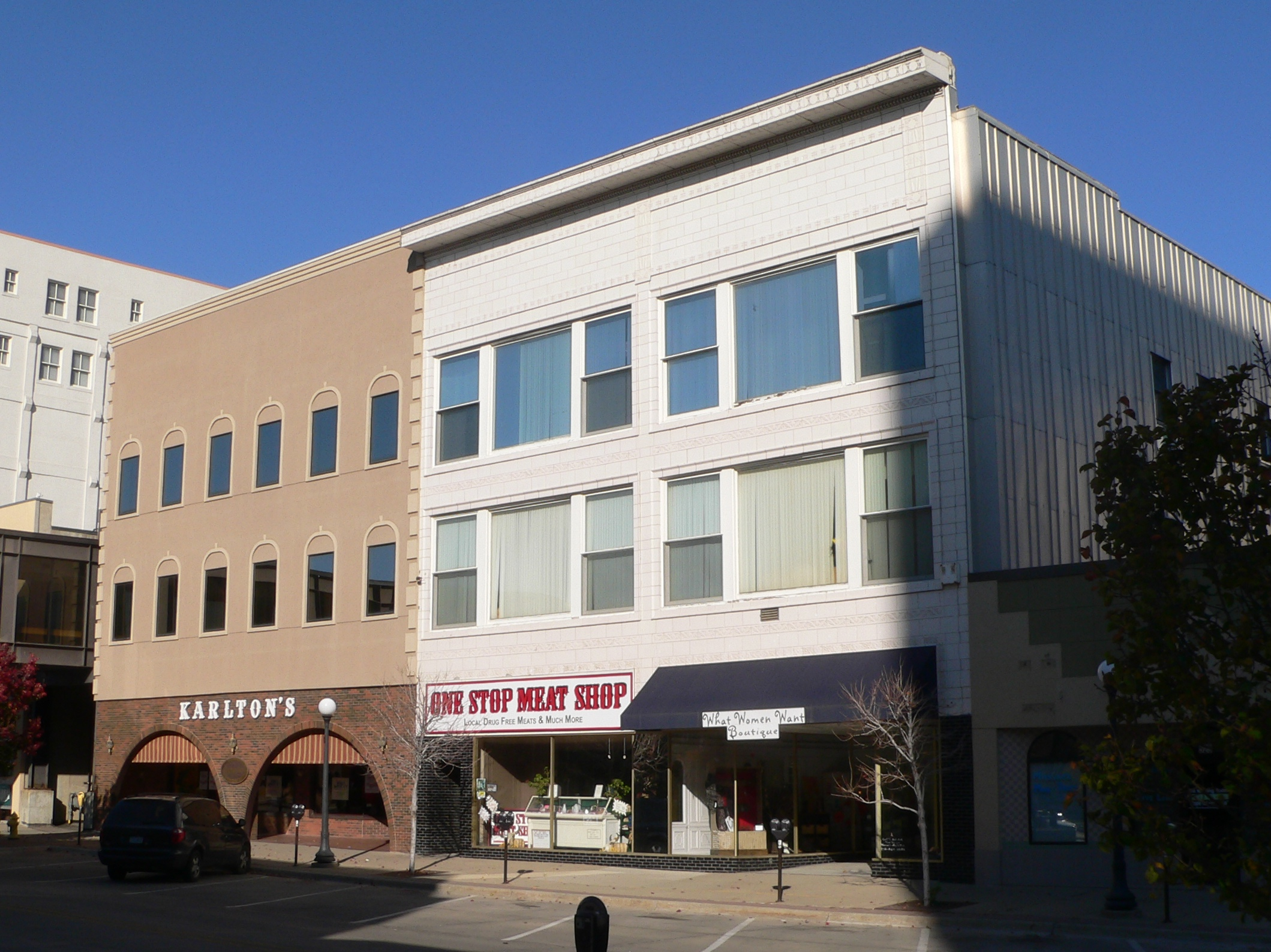 Buildings at 515 4th Street (left) and 519-521 4th Street (right) in Sioux City, Iowa; seen from the southeast. The buildings were formerly part of the T. S. Martin and Co. department store.